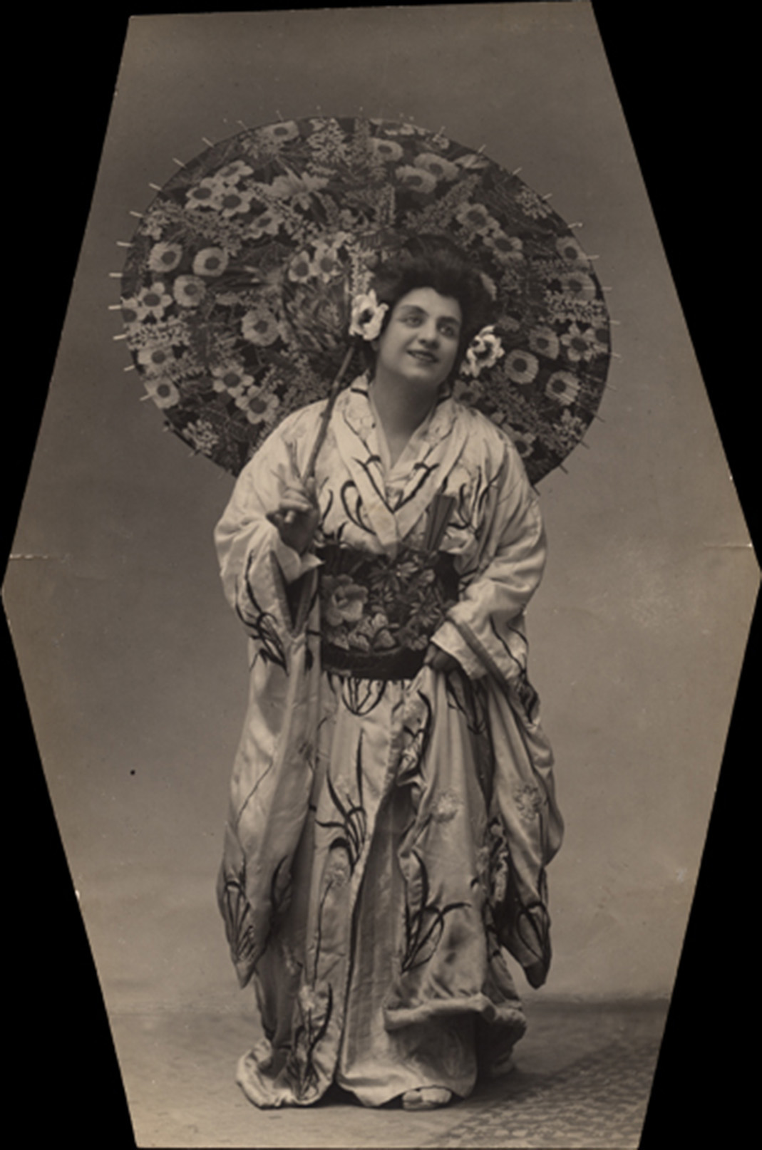 Portrait of Rosina Storchio, soprano (1874-1945). Photo by Varischi e Artico, Milano, 1904.